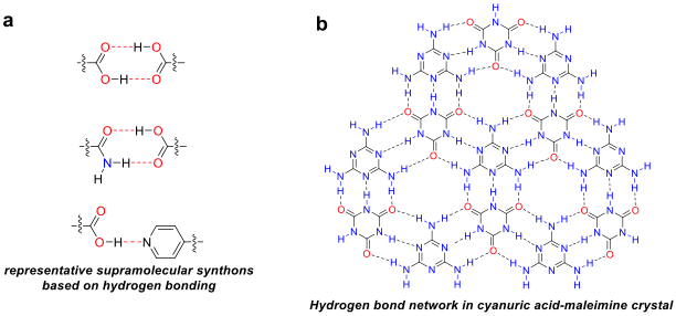 (a) Representative hydrogen bond patterns in supramolecular assembly. (b) Hydrogen bond network in cyanuric acid-melamine crystals.